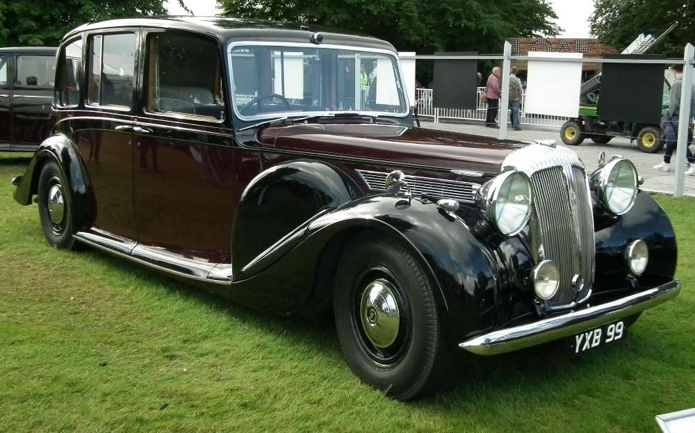 Daimler DE36 Landaulette 1947 (DVLA) first registered 14 April 1960, 5460cc Goodwood Festival of Speed 2012